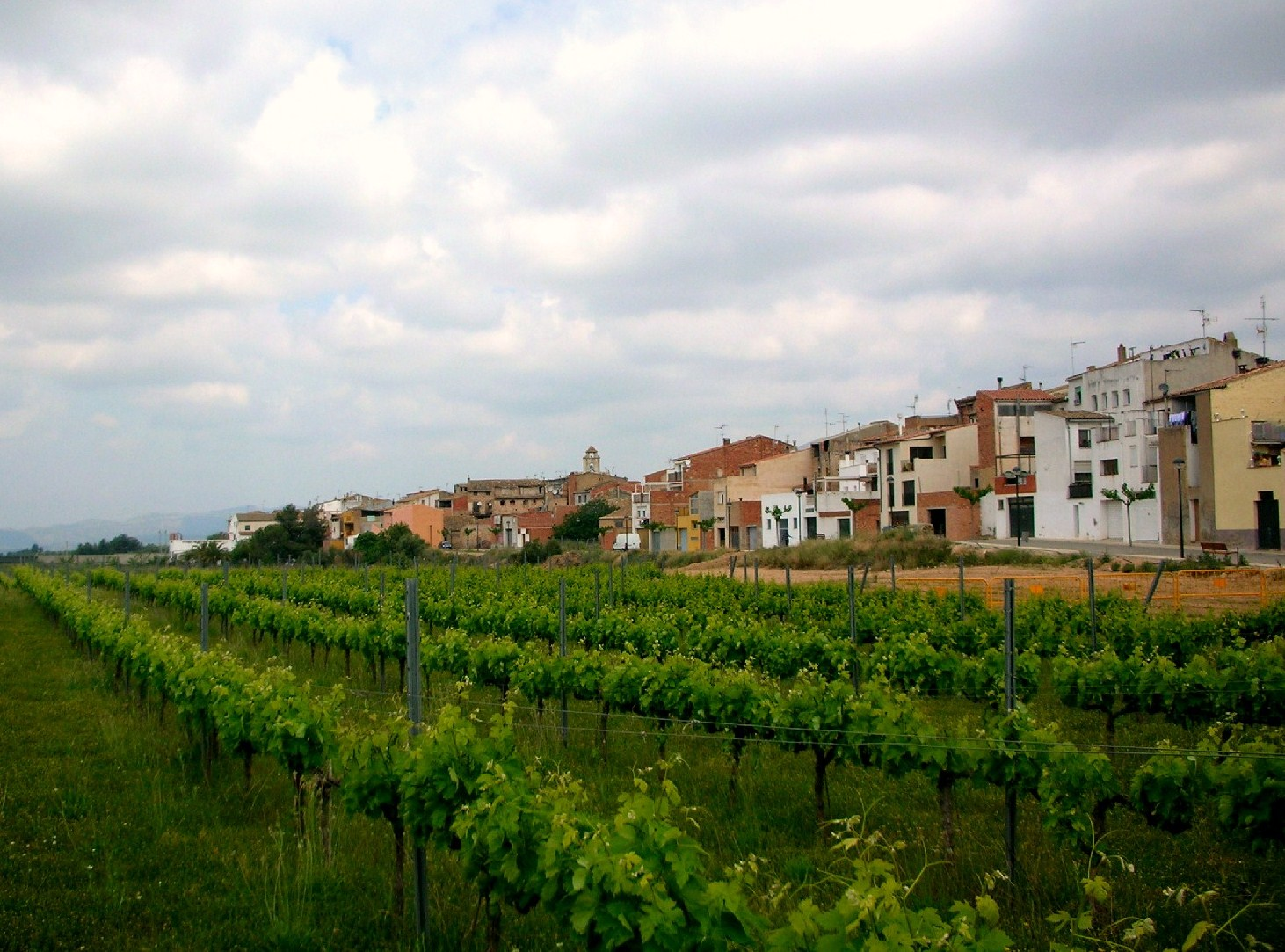 View of La Serra d'Almos